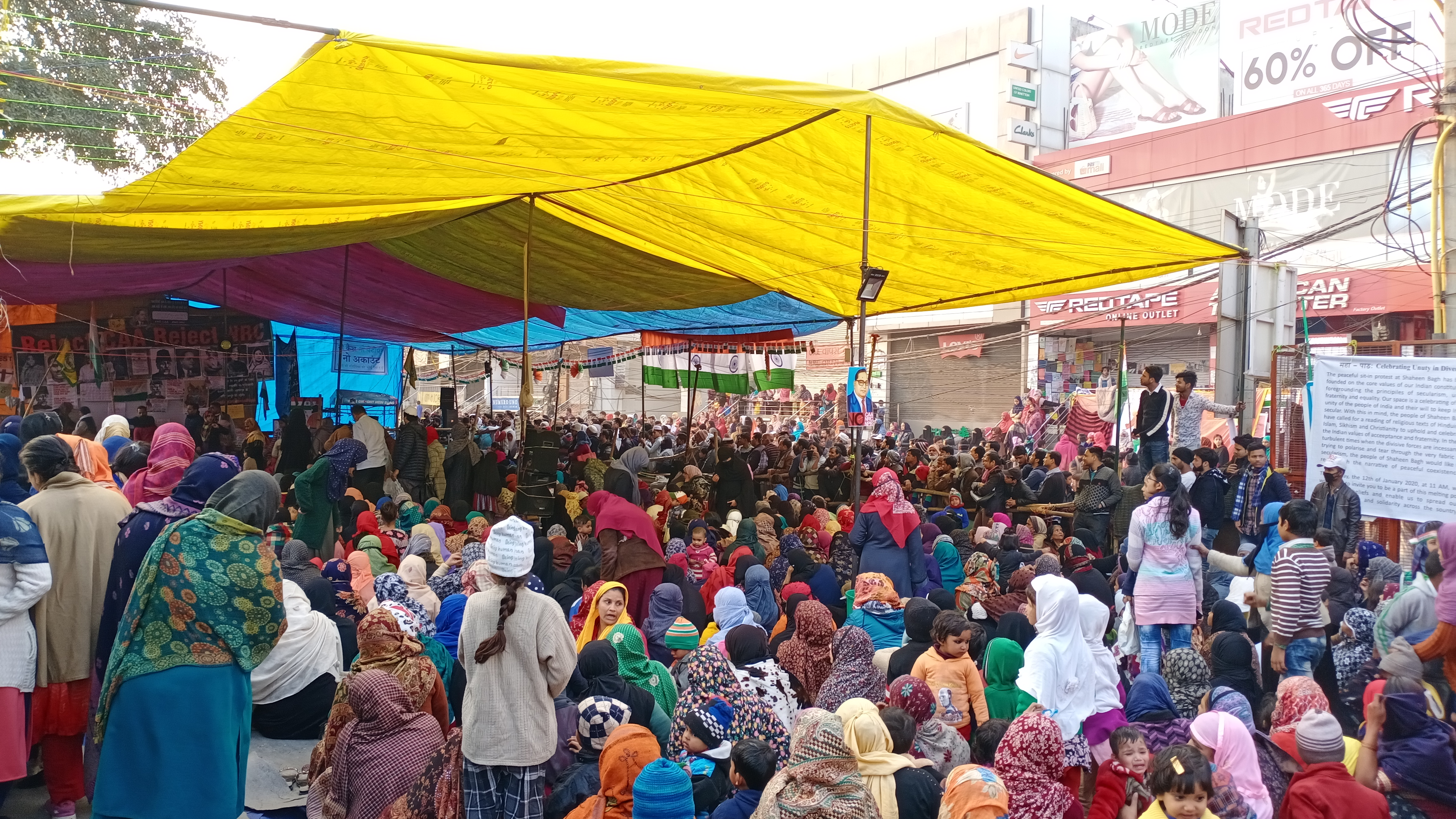 The main protest area of Shaheen Bagh protests 15 Jan 2020